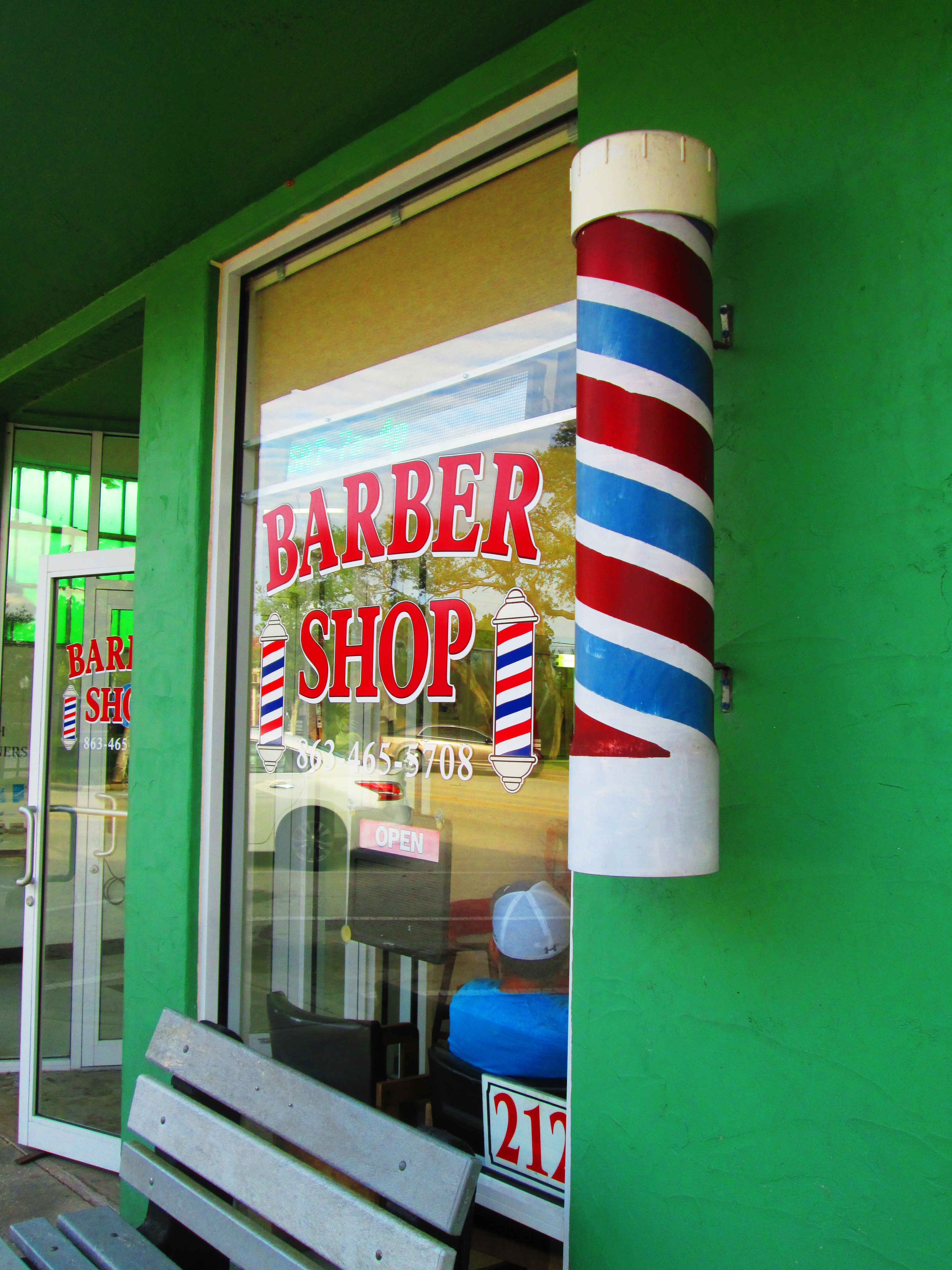 A barber shop with a painted barber pole on East Interlake Boulevard in Lake Placid, Florida.